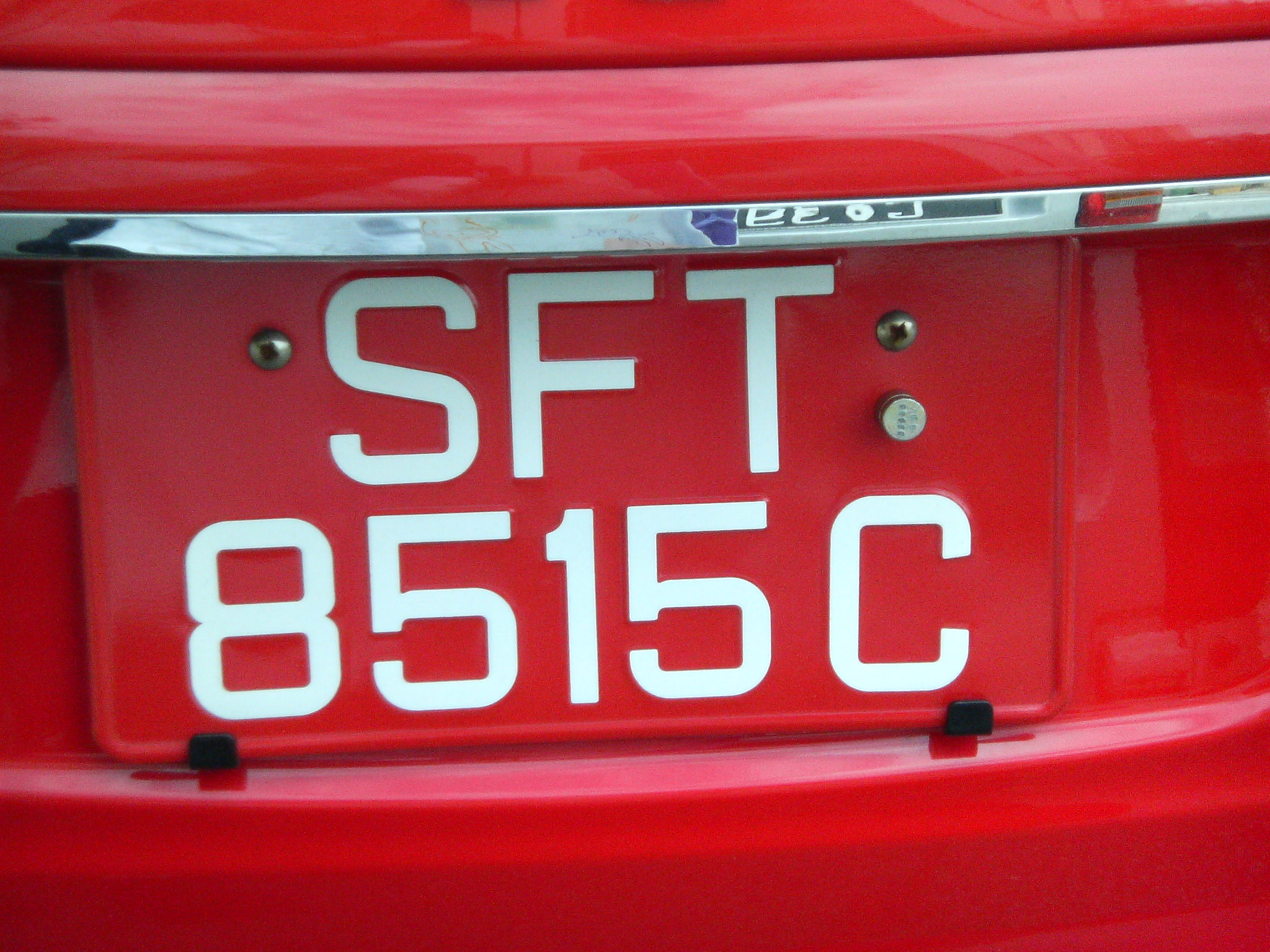 A Singapore off-peak vehicle registration plate of a red vehicle.